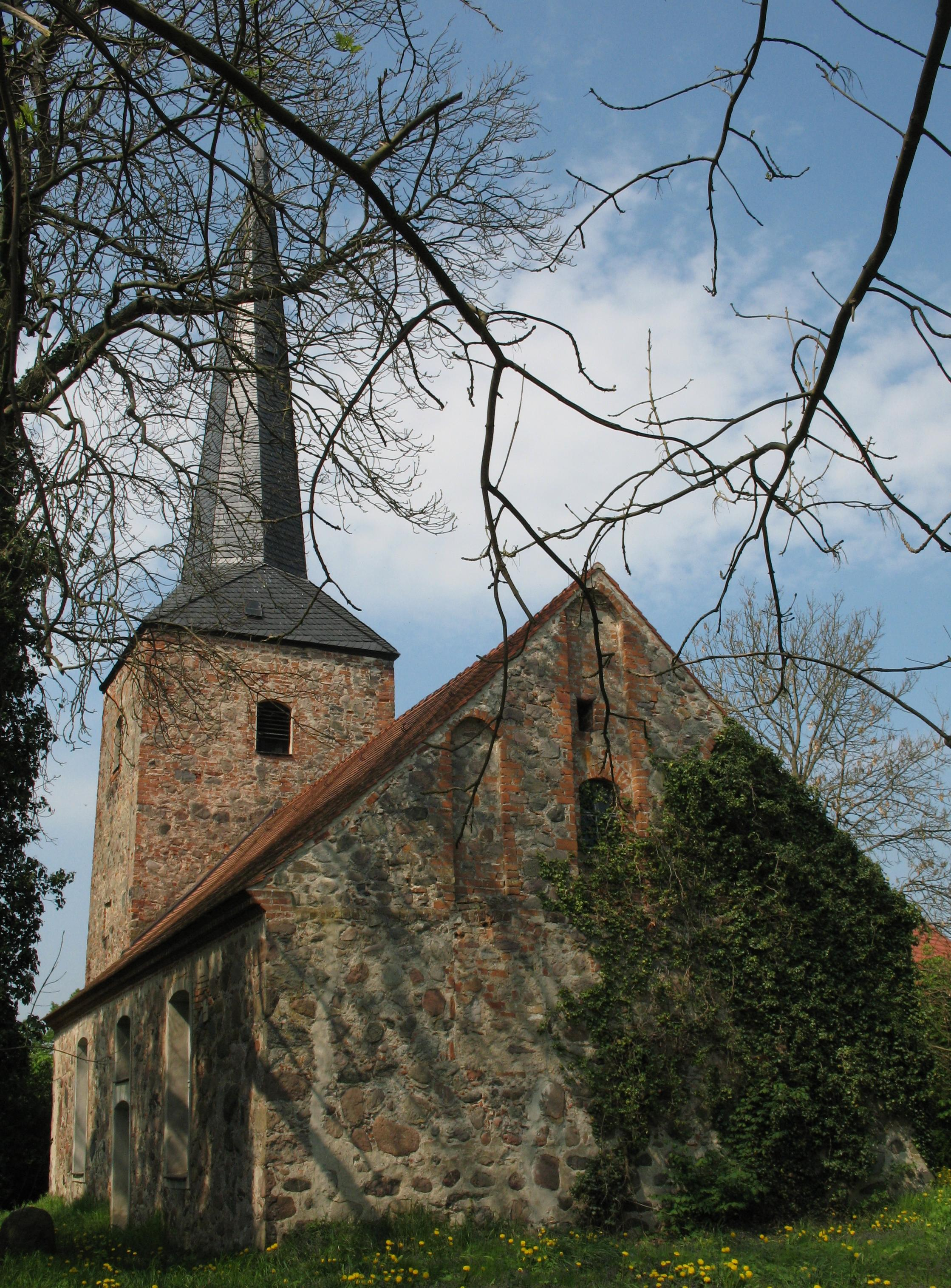 Eastern view of church in Rheinsberg-Dierberg in Brandenburg, Germany